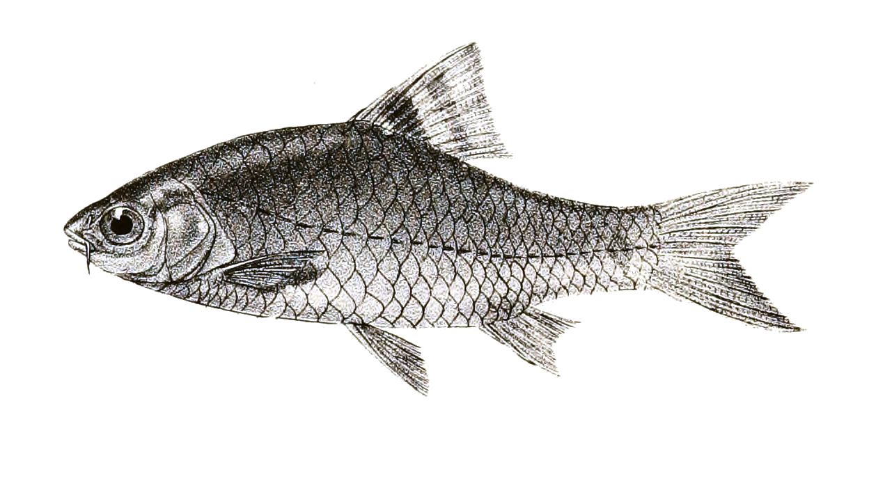 The species names / identity need verification - original names from plate are included here. The original plates showed the fishes facing right and have been flipped here. Barbus chola